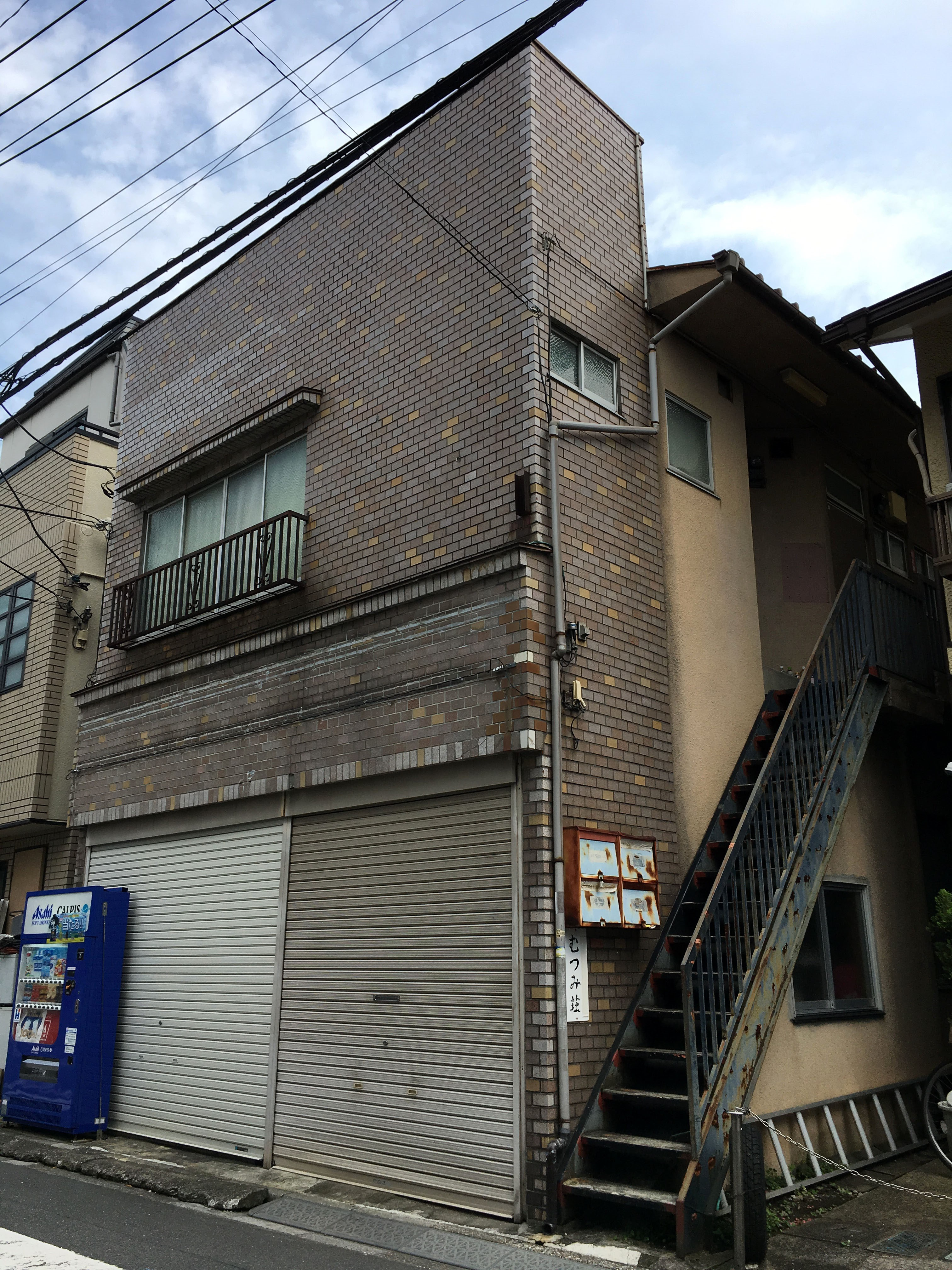 Mutsumi-so (an tenement in Tokyo, Japan)